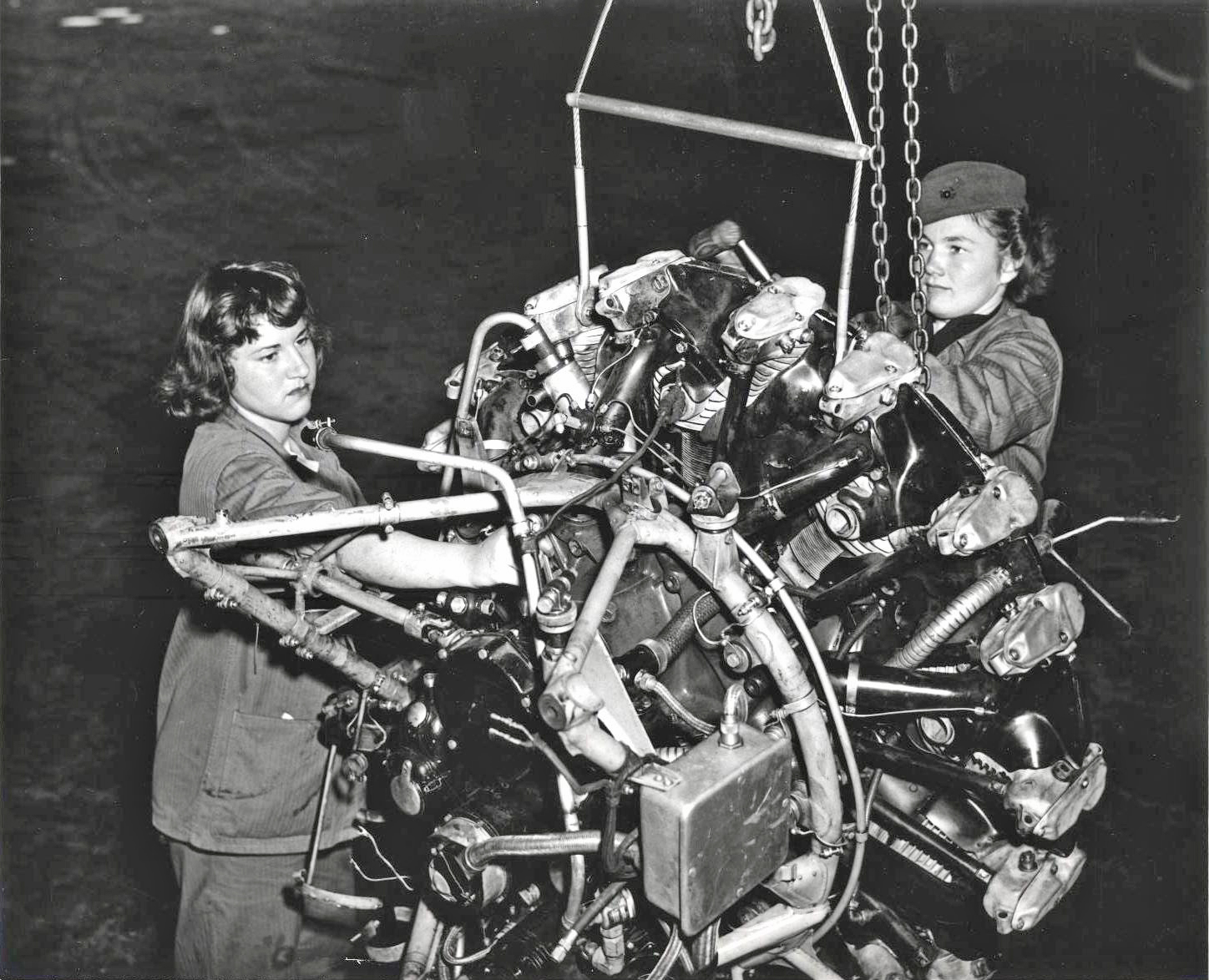 Private First Class Priscilla Goodrich (left) and Private Elaine Munsinger (right) break down an airplane engine in the Assembly and Repair Department at Marine Corps Air Station Cherry Point, North Carolina.From the Marine Corps Women's Reserve Collection (COLL/981) at the Marine Corps Archives & Special Collections.OFFICIAL USMC PHOTOGRAPH